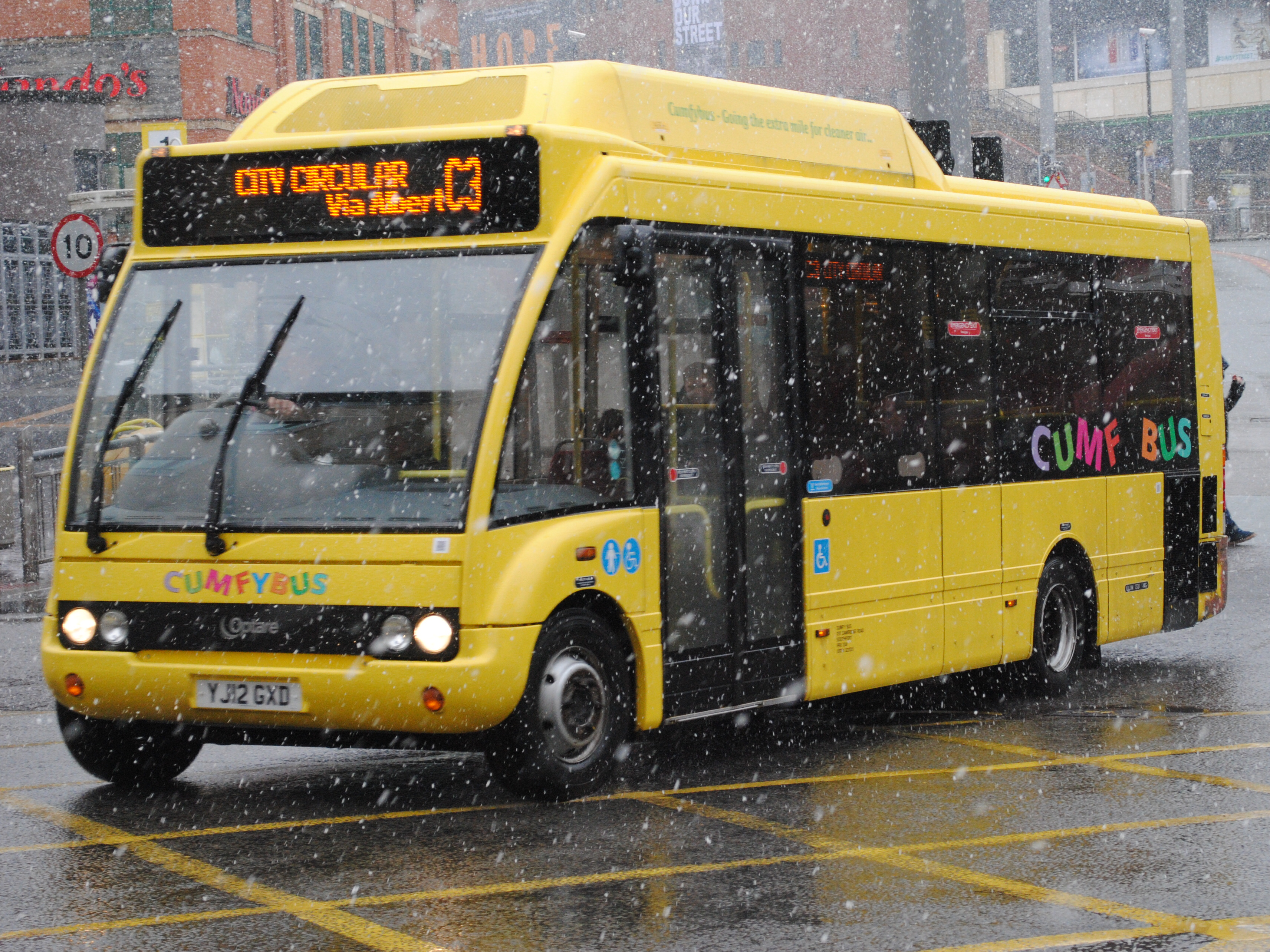 Optare Solo M810SL Hybrid in a snowfall at Queen Square Bus Station, Liverpool